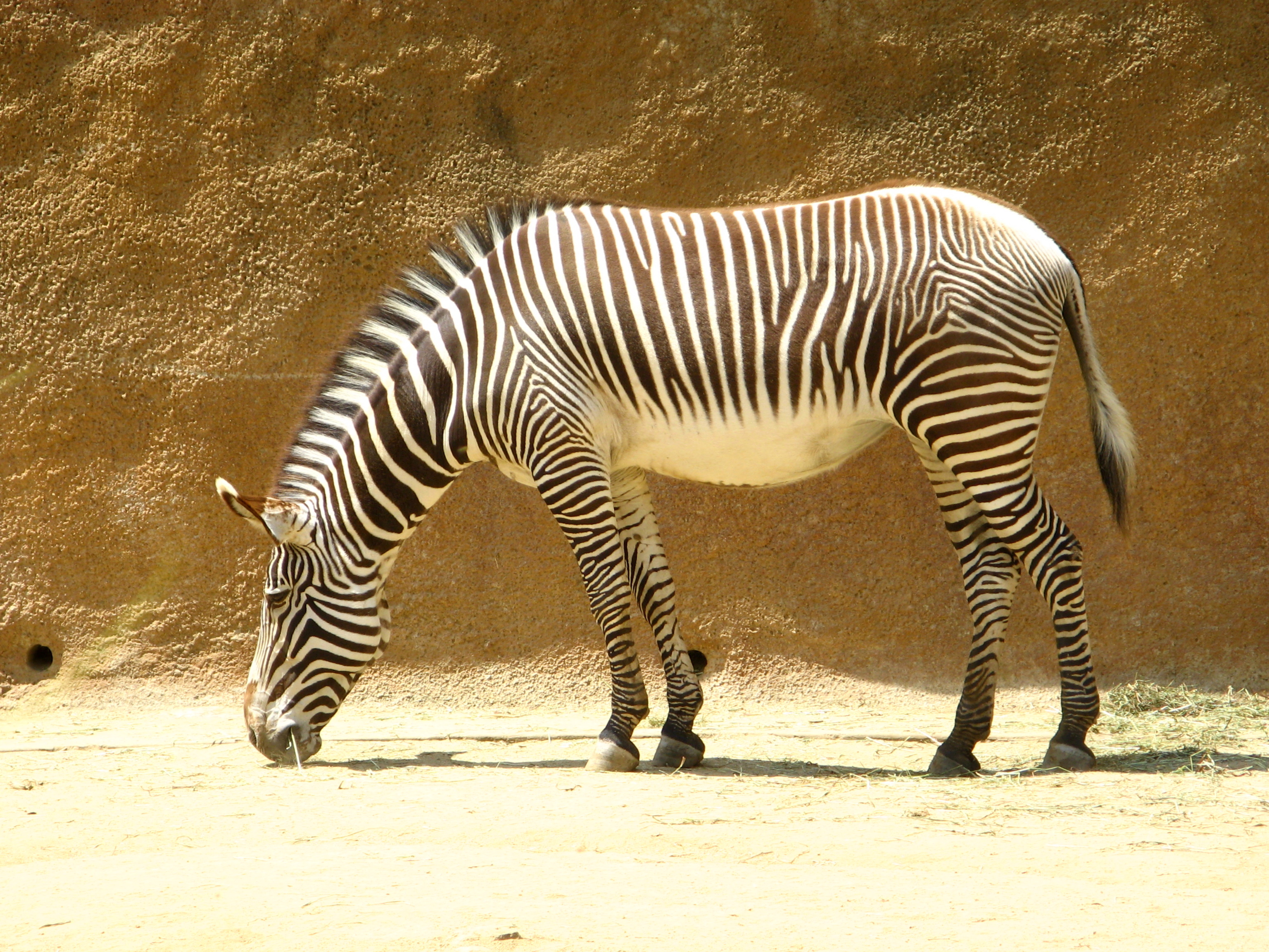 A Zebra in captivity at the Los Angeles Zoo